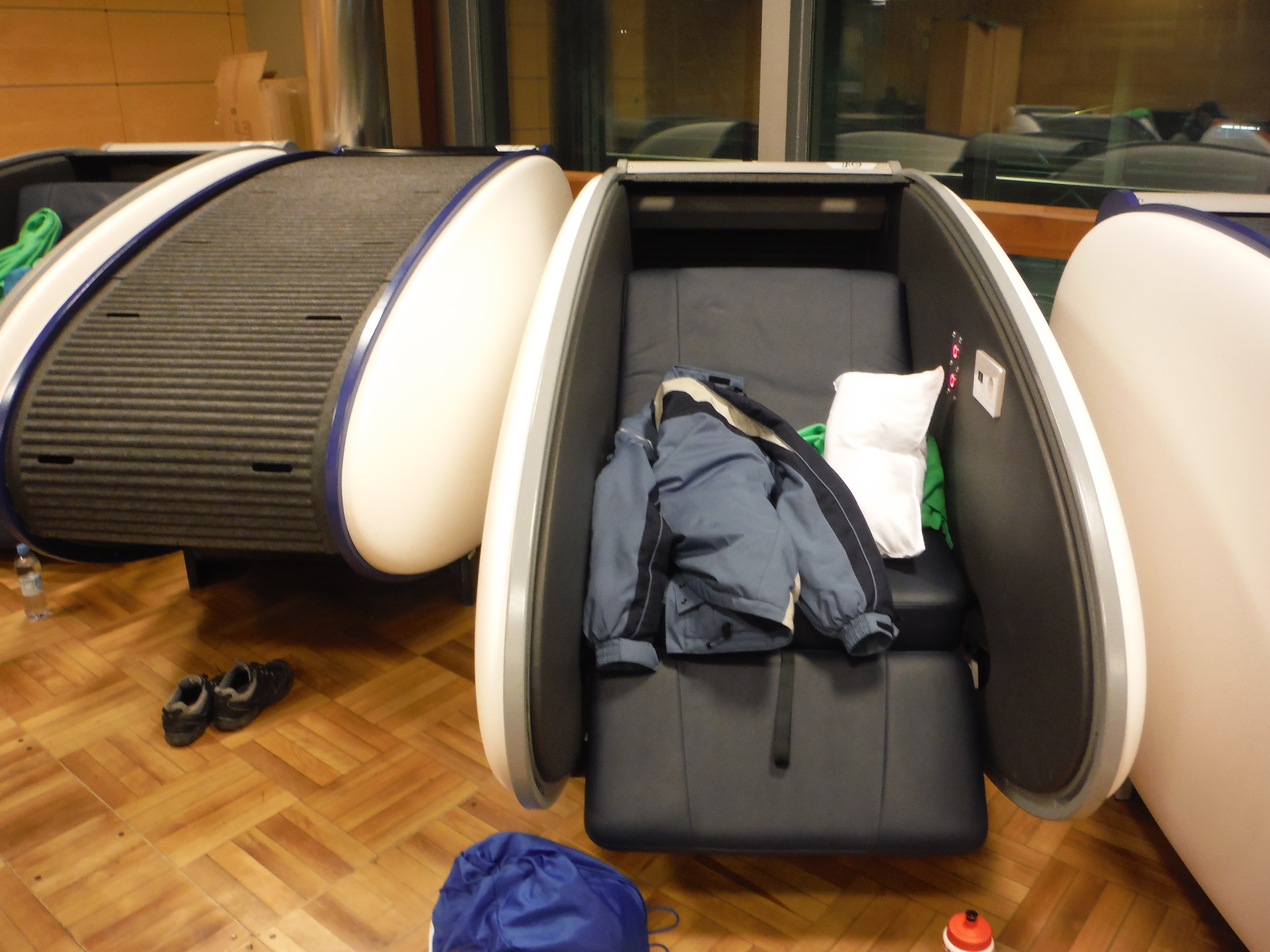 Sleeping pods in Helsinki-Vantaa Airport at the end of terminal 2 near gate 31.